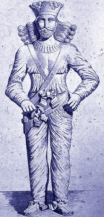 Drawing after engraving of The Seven Great Monarchies Of The Ancient Eastern World, Vol 3. (of 7). Colossal statue of Shapur I can be located in Shapur cave in the city of Bhishapur, Iran. It was build in the memory of Shapur I, the second king of Sassanid empire. This impressive colossal statue have height of 6.7 meters and have breath of 2 meters. This statue was made of using huge stalagmite rocks, which extract from the floor of caves. The concrete pillars at the feet protect this statue from Earthquakes. Some parts of arms and legs missed from this statue. The wide trousers and upper garments reflects the dressing style of Sassanid empire. It is also possible to see some of jewellery carvings om this statue.